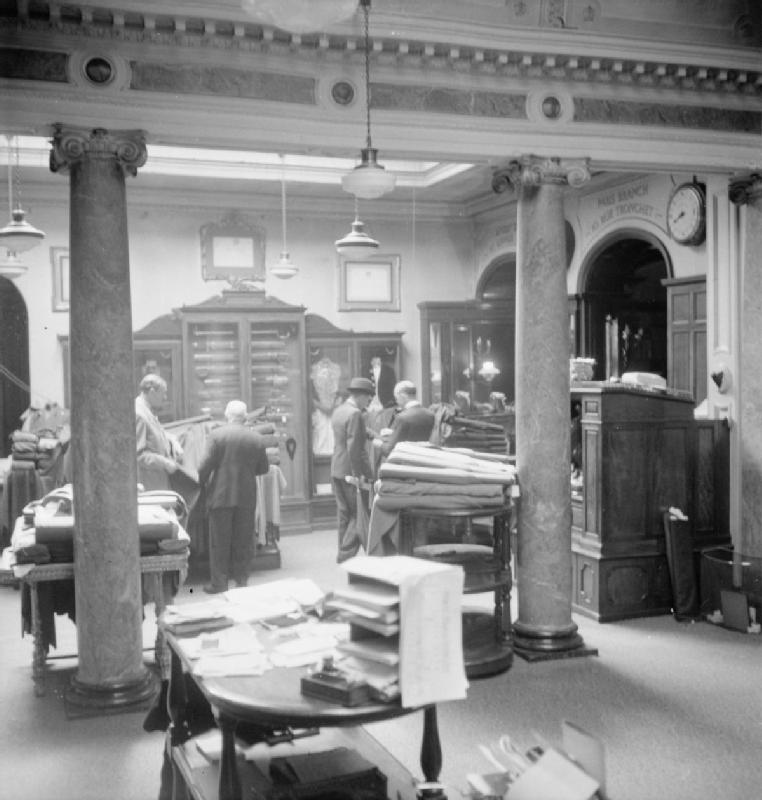 Savile Row- Tailoring at Henry Poole and Co., London, England, UK, 1944 Customers examine the wares of Henry Poole and Co. in their 18th century showroom on Savile Row. In the background can be seen a large cabinet in which are displayed various swords and several military dress uniforms. The original caption explains that although the range of materials available is very limited, "some prewar stuffs are still in stock and British manufacturers continue to turn out a limited amount of fine worsteds and tweeds".